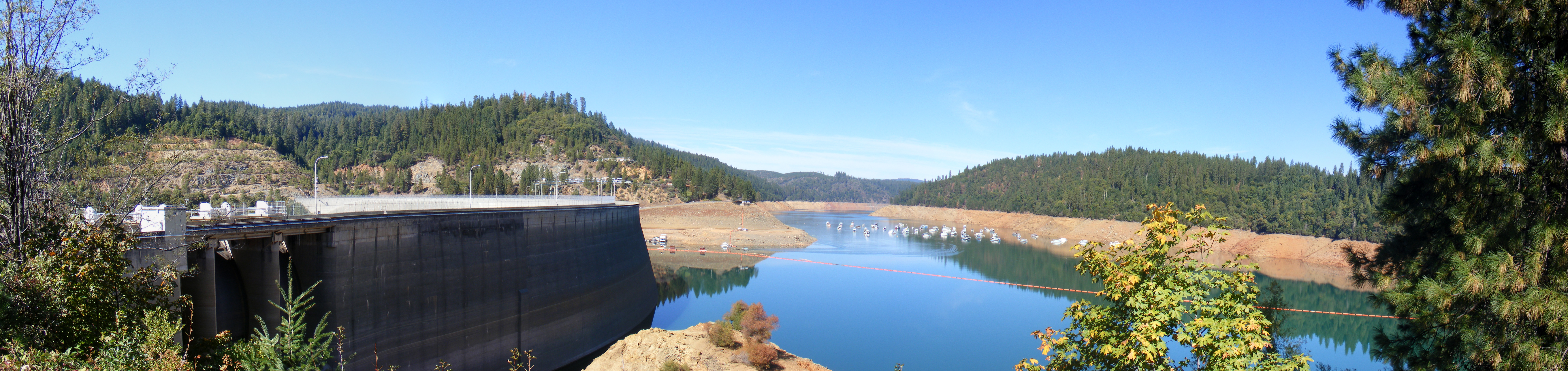 A panoramic view of Bullards Bar Reservoir in California. The New Bullards Bar Dam can also be seen on the left hand side of the image. This 6x1 image stitch was done with PTAssembler 4.0.